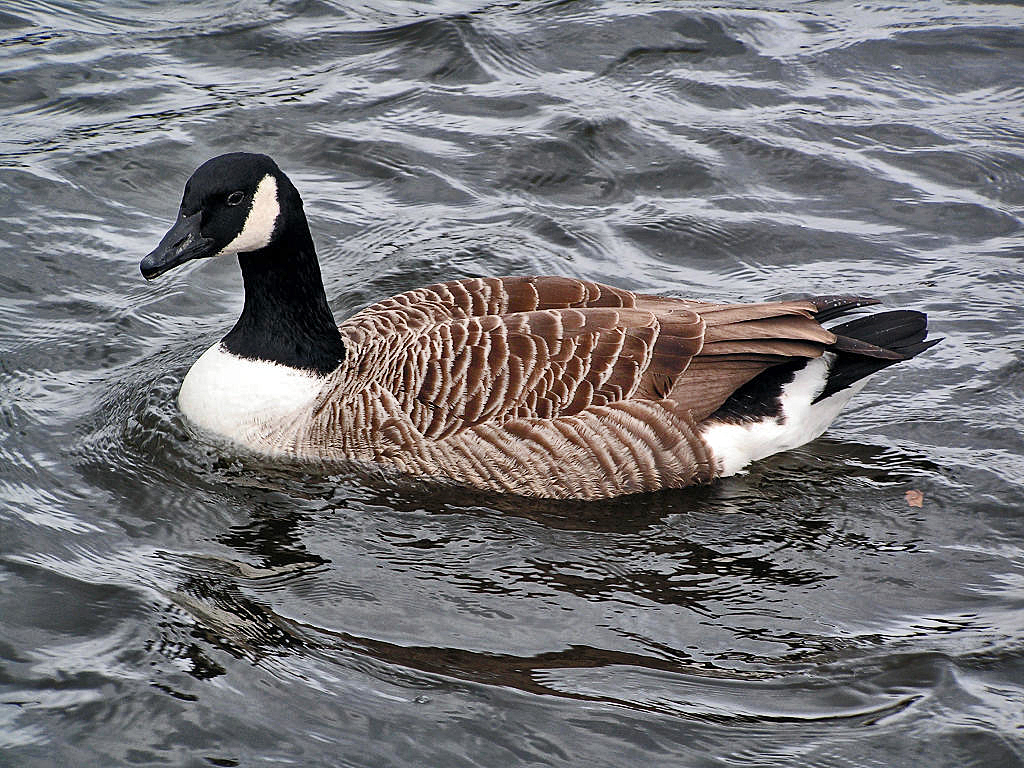 Canada Goose on Serpentine in London